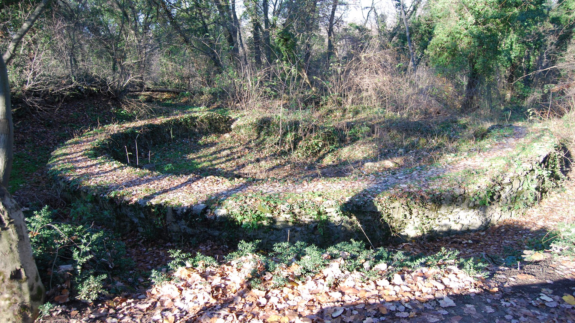 Archeological site in Čortanovci, near Inđija- Forest of Mihaljevac